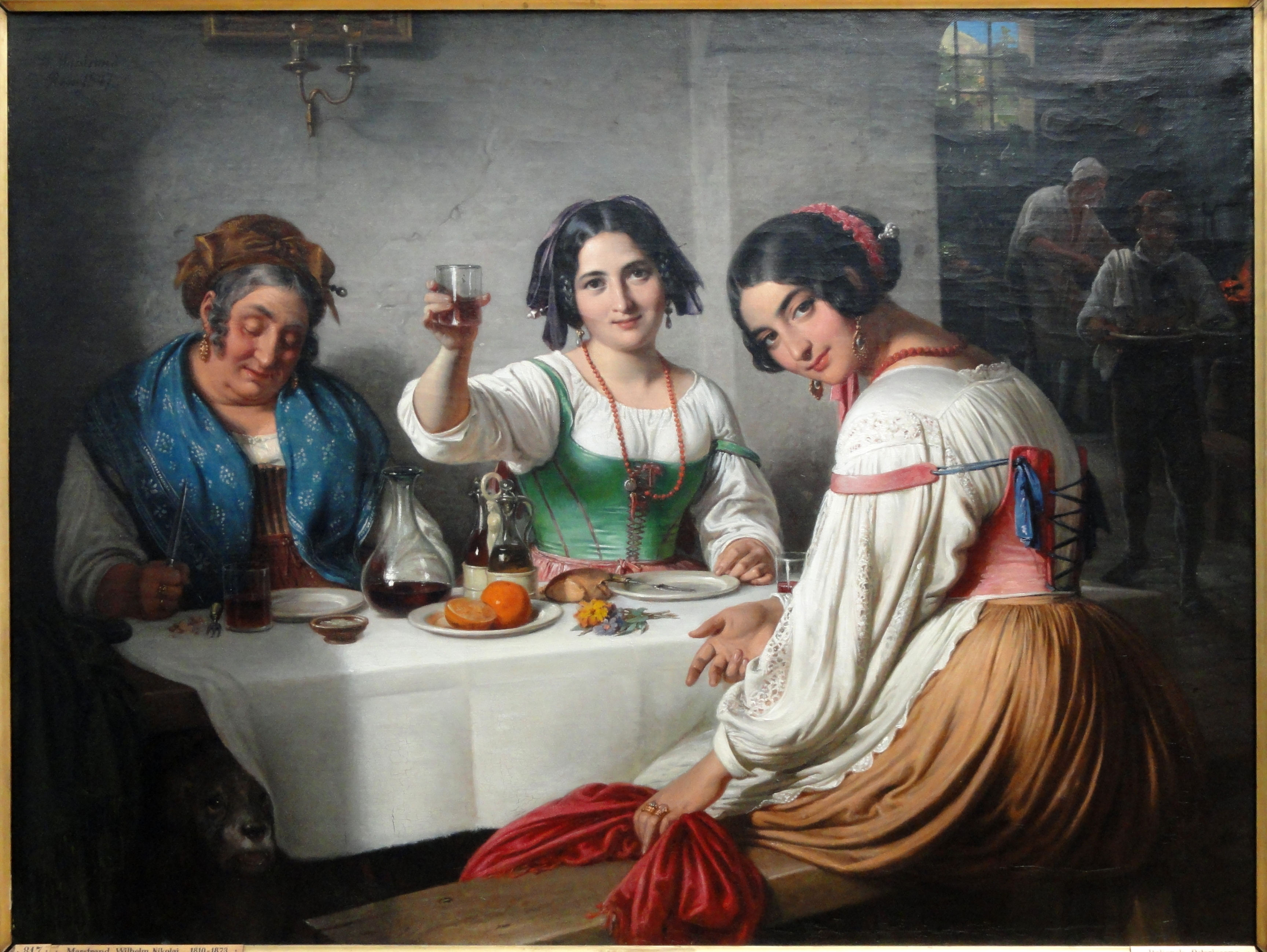 Painting exhibited in the Ny Carlsberg Glyptotek, Dantes Plads 7, Copenhagen, Denmark. This artwork is now in the public domain because the artist died more than 70 years ago.